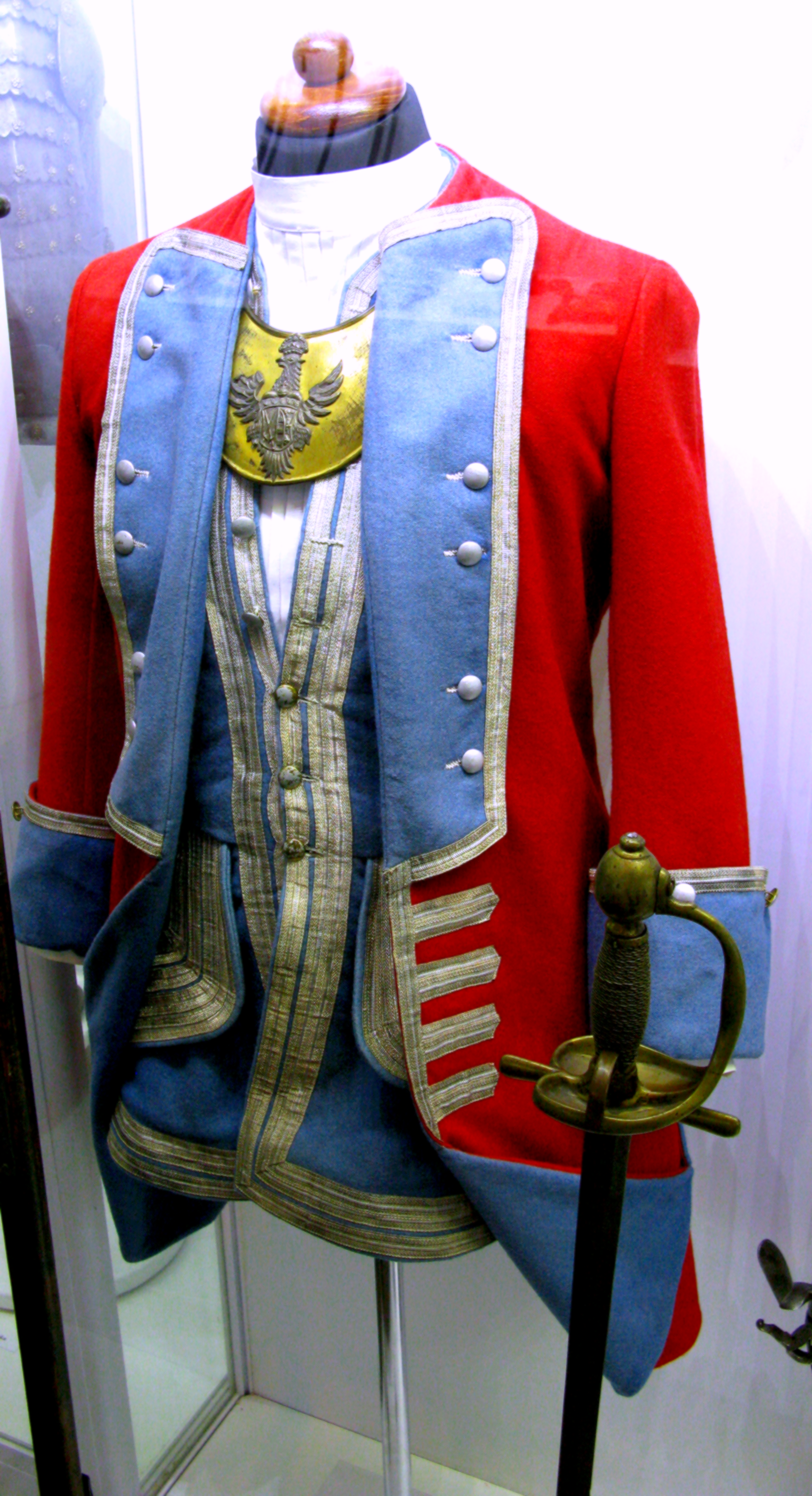 Officer's uniform of Foot Guard of the Polish Crown 1732